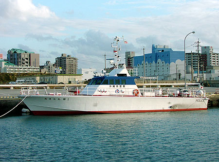 Okinawa Prefectural Police boat OKINAWA